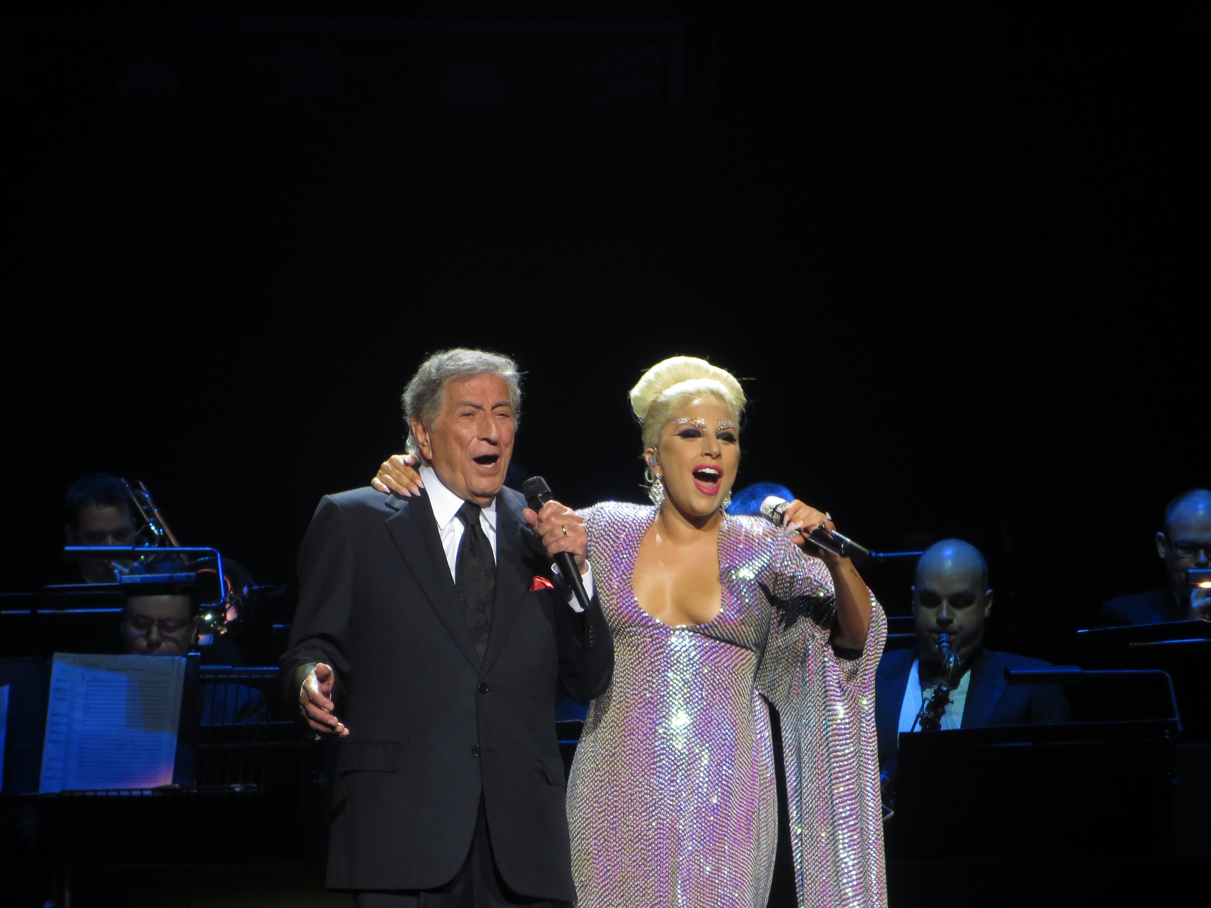 Tony Bennett & Lady GaGa, Cheek to Cheek Tour, London Royal Albert Hall, 8 June 2015.